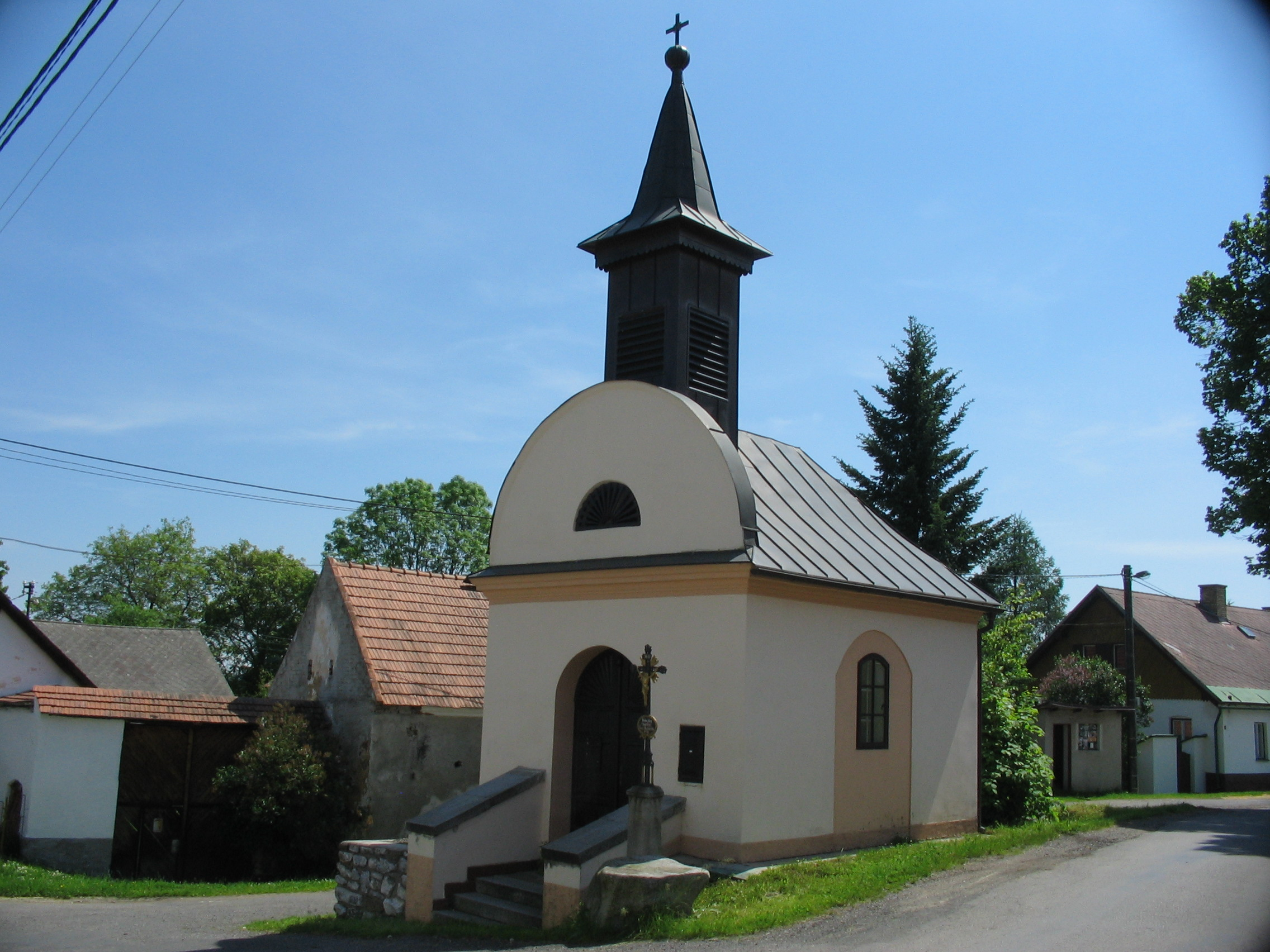 Chapel in Ostružno, Klatovy District, Czech Republic